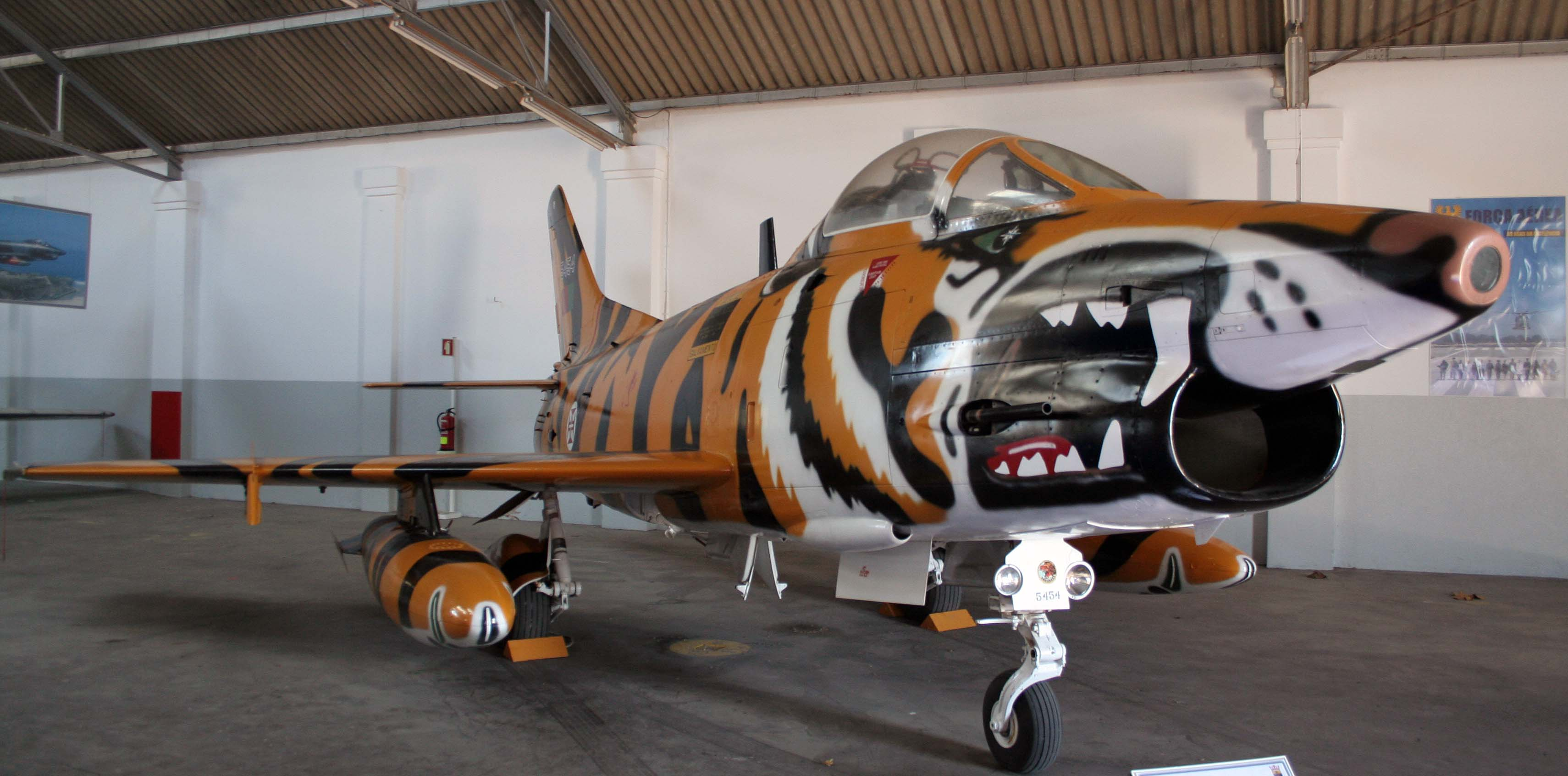 Fiat G.91 of the Portuguese Air Force